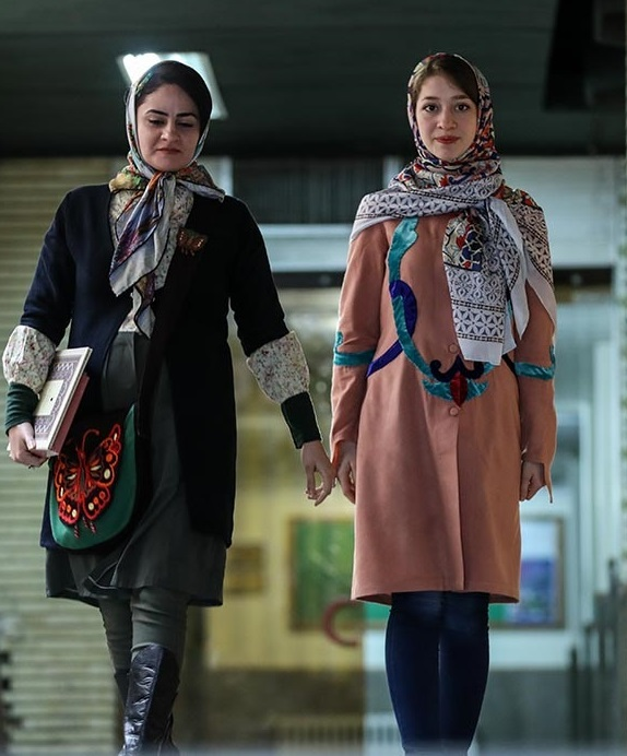 Closing ceremony of the 3rd Islamic Iranian fashion & clothing festival of Gilan (Roja), Khatam-al Anbiya Art Cultural Complex of Rasht - 15 March 2018